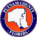 Seal of Putnam County, Florida